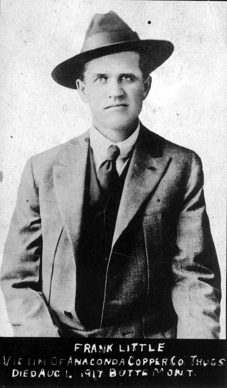 Caption on front: "[Frank Little/Victim of Anaconda Copper Co. Thugs. Died Aug 1, 1917 Butte Mont.]" Photographer: Unknown Subjects (LCSH): Industrial Workers of the World -- History. Industrial Workers of the World. Digital Collection: Industrial Workers of the World Photograph Collection Item Number: Persistent URL: Visit the Labor Archives of Washington State, UW Special Collections reproductions and rights page for information on ordering a copy. University of Washington Libraries. Labor Archives Digital Collections. Related Resources: Labor Archives of Washington State Website Labor Archives of Washington State Collection Guide Finding aid to the Industrial Workers of the World Photograph Collection, Labor Archives of Washington State, University of Washington Libraries Special Collections Finding aid to the Industrial Workers of the World Seattle Joint Branches Records, Labor Archives of Washington State,University of Washington Libraries Special Collections Finding aid to the Industrial Workers of the World Seattle Joint Branches Records, Labor Archives of Washington State, University of Washington Libraries Special Collections Finding aid to the Everett Prisoners' Defense Committee Records, Labor Archives of Washington State, University of Washington Libraries Special Collections